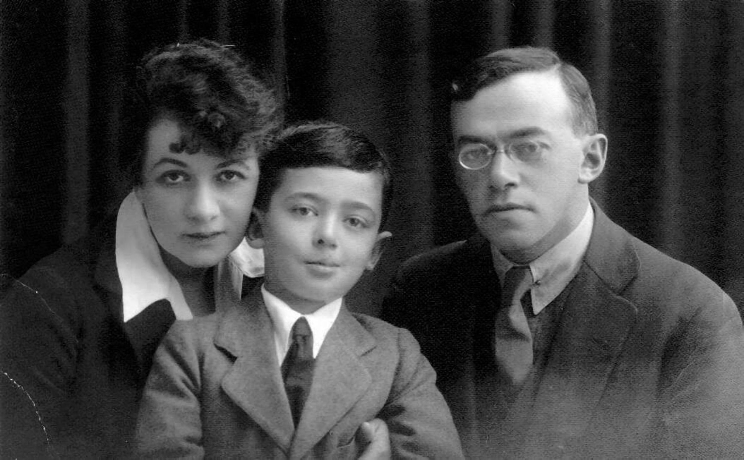 Ze'ev Jabotinsky with his wife and son